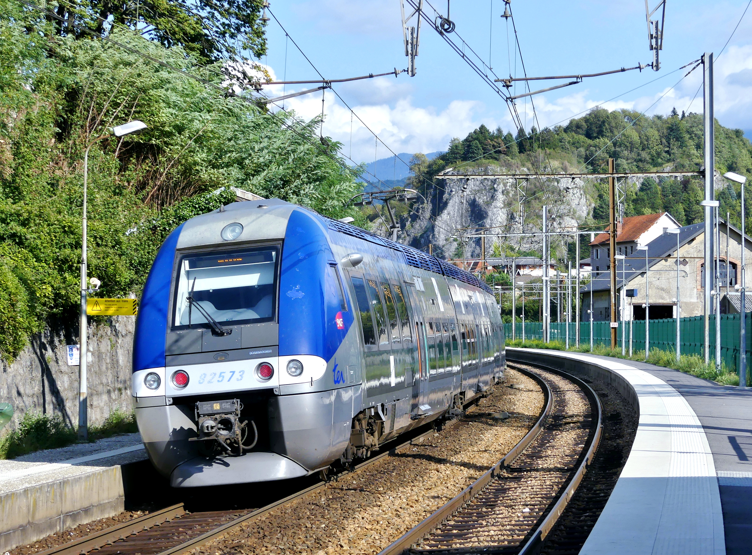 Sight of a French regional train coming from the regional capital Lyon and bound for Modane at the Italian border, leaving Montmélian railway station, in Savoie.